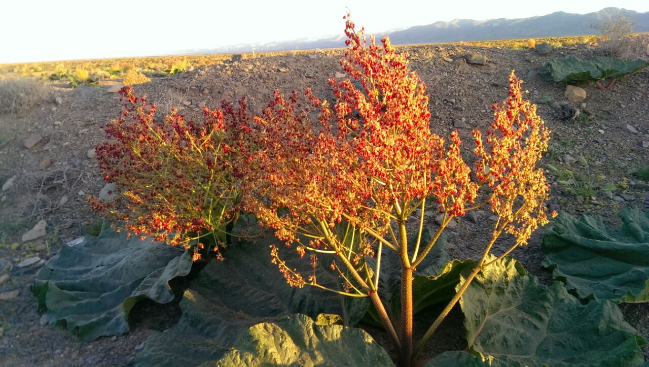 Iranian Herb a special Medicinal plant in desert of Iran called Rivas. or Rheum (plant)